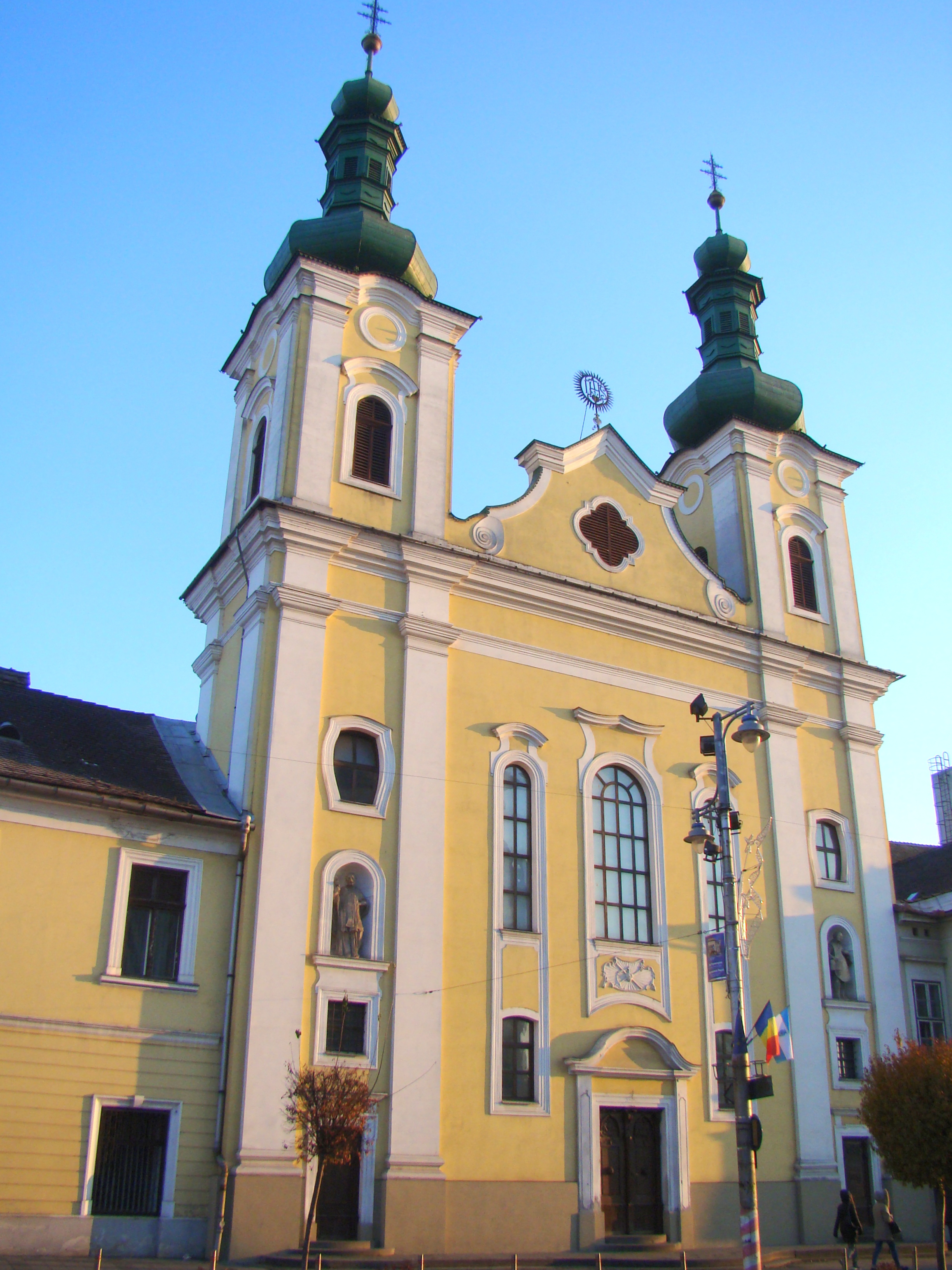 Jezuit monastery in Târgu Mureș, Mureș county, Romania